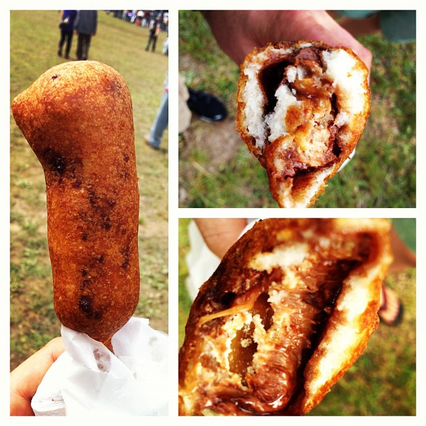 A deep-fried Snickers chocolate bar, whole on the left and in two different stages of consumption on the right